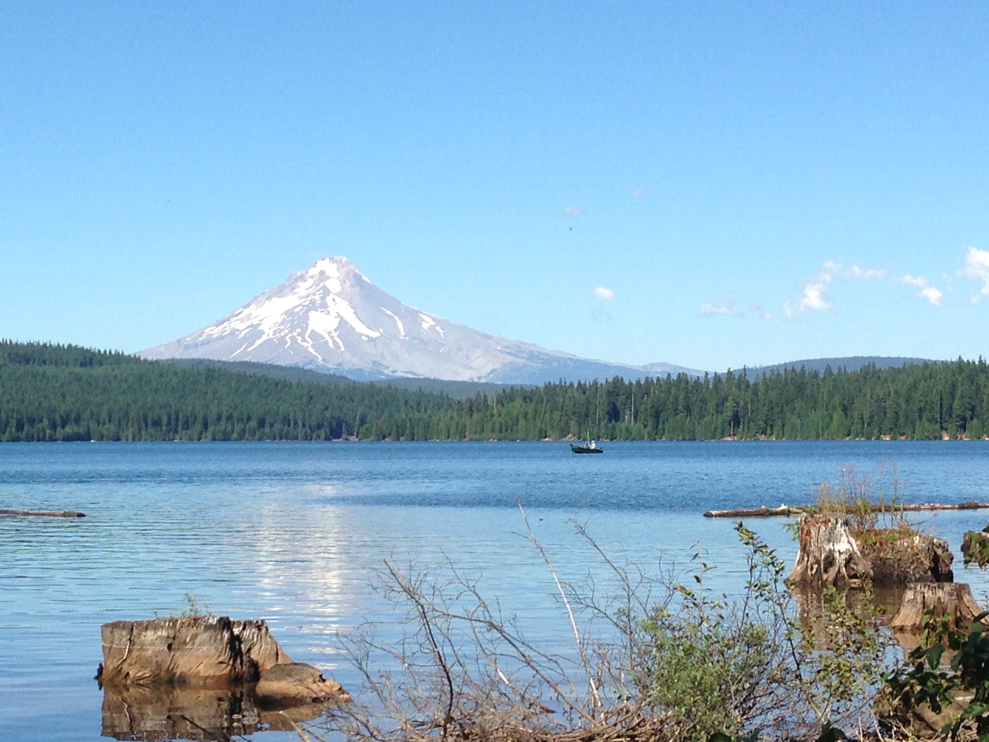 Mt. Hood from Timothy Lake.